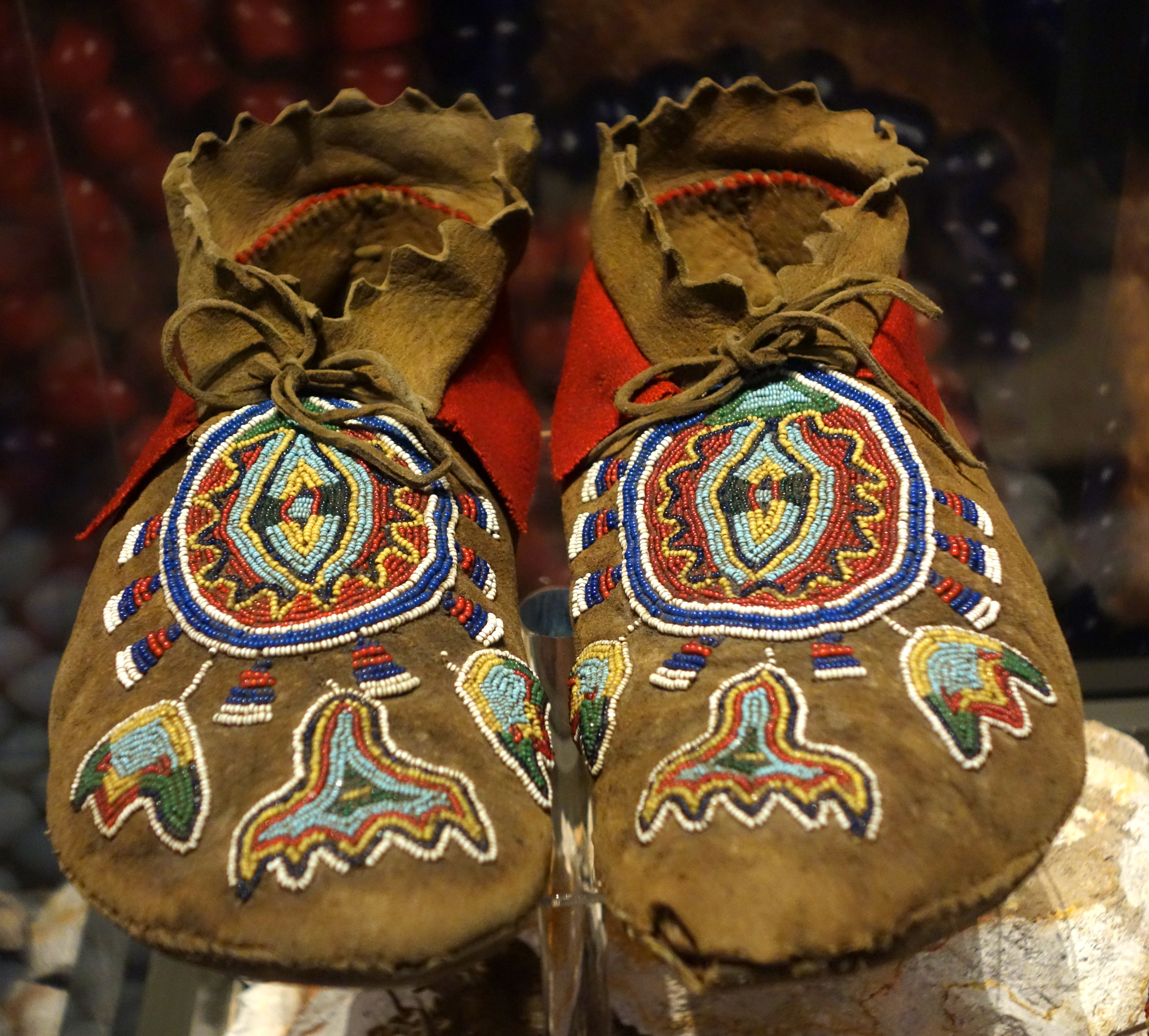 Exhibit in the Bata Shoe Museum, Toronto, Ontario, Canada. This item is old enough so that its design is in the public domain. The museum permitted photography without restriction.